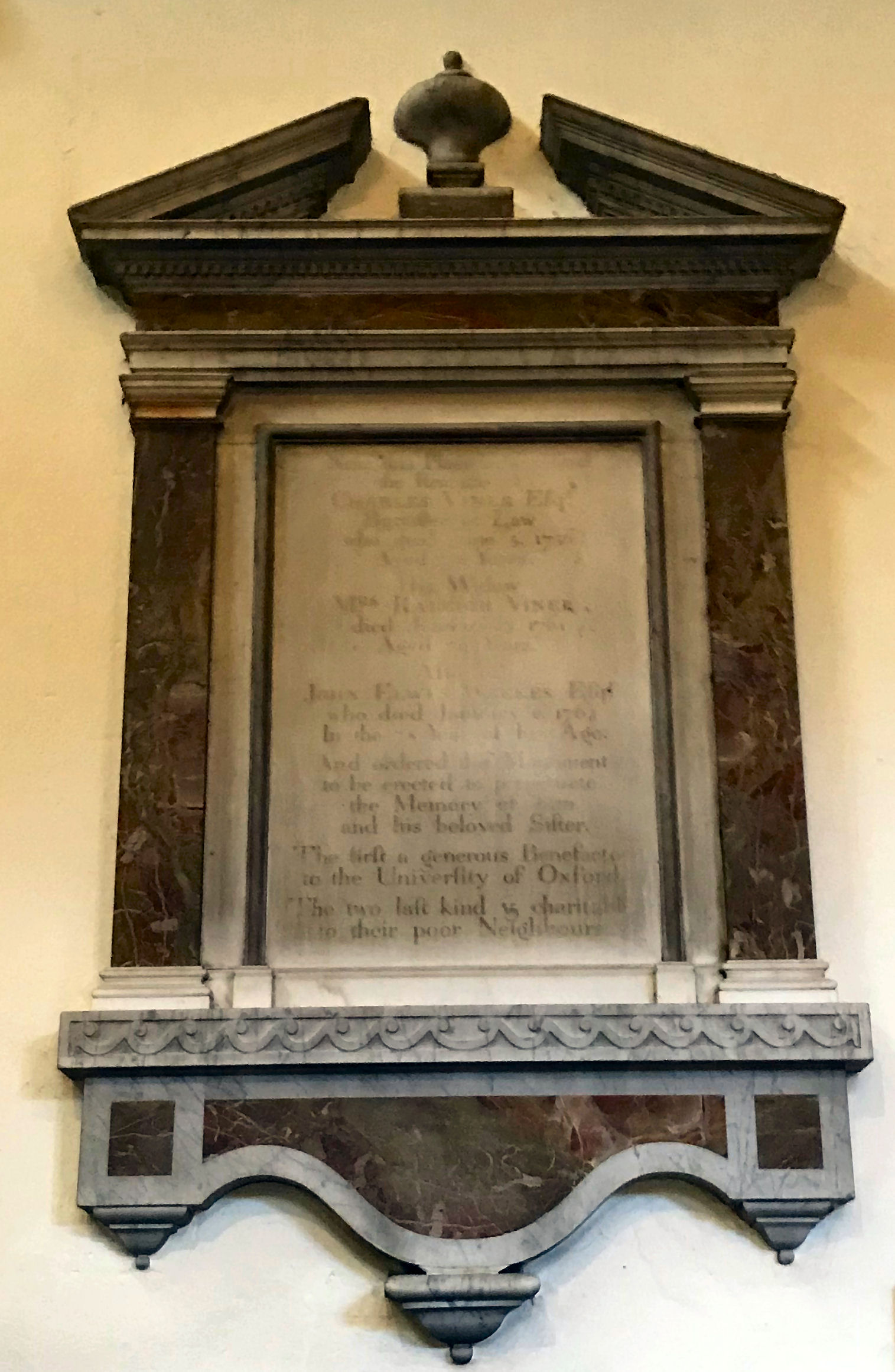 Memorial to the jurist Charles Viner, his wife and brother-in-law in the Church of St Michael the Archangel in Aldershot, Hampshire